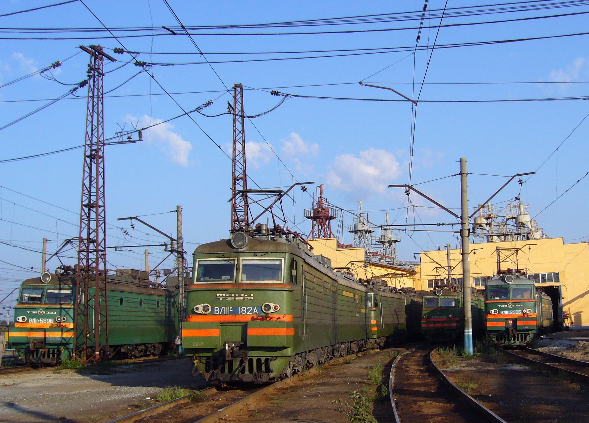 Electric locomotives VL11 near Yekaterinburg depot, Russia